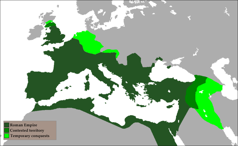 Map of the territorial expanse of the Roman Empire, based on [1], adding the temporary possessions in Germania under Augustus, Scotland north of the Forth-Clyde line (held for a while after Agricola's departure), and Bohemia (Marcomanni and Quadi) under Marcus Aurelius.